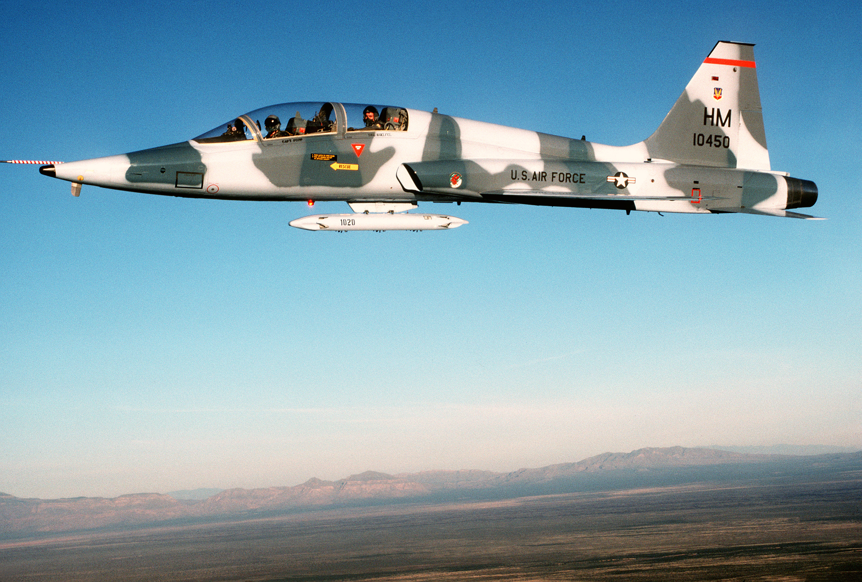 A U.S. Air Force Northrop AT-38B Talon aircraft (s/n 65-10450) flies over the plains of New Mexico (USA) during a 479th Tactical Training Wing Lead-In Fighter Training (LIFT) flight near Holloman Air Force Base in 1987. LIFT flights are to become familiar with fighter tactics and maneuvers. The AT-38B carries external armament and weapons delivery equipment for training.